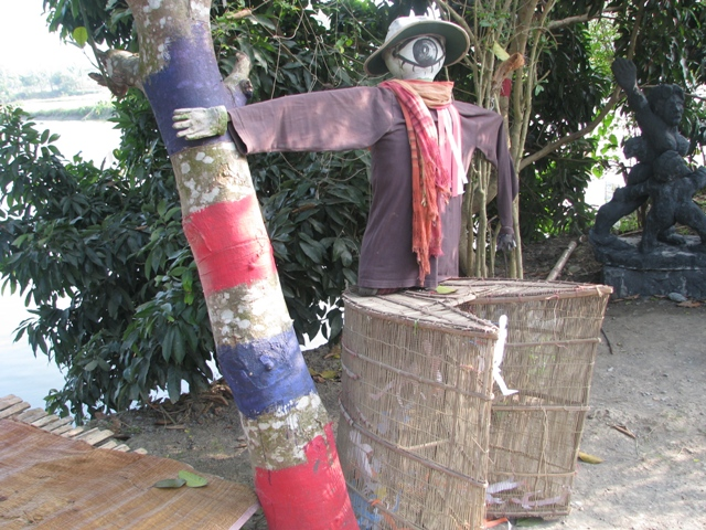 Annual Crack International Art Camp in Rahimpur, Kushtia, Bangladesh, 2008.